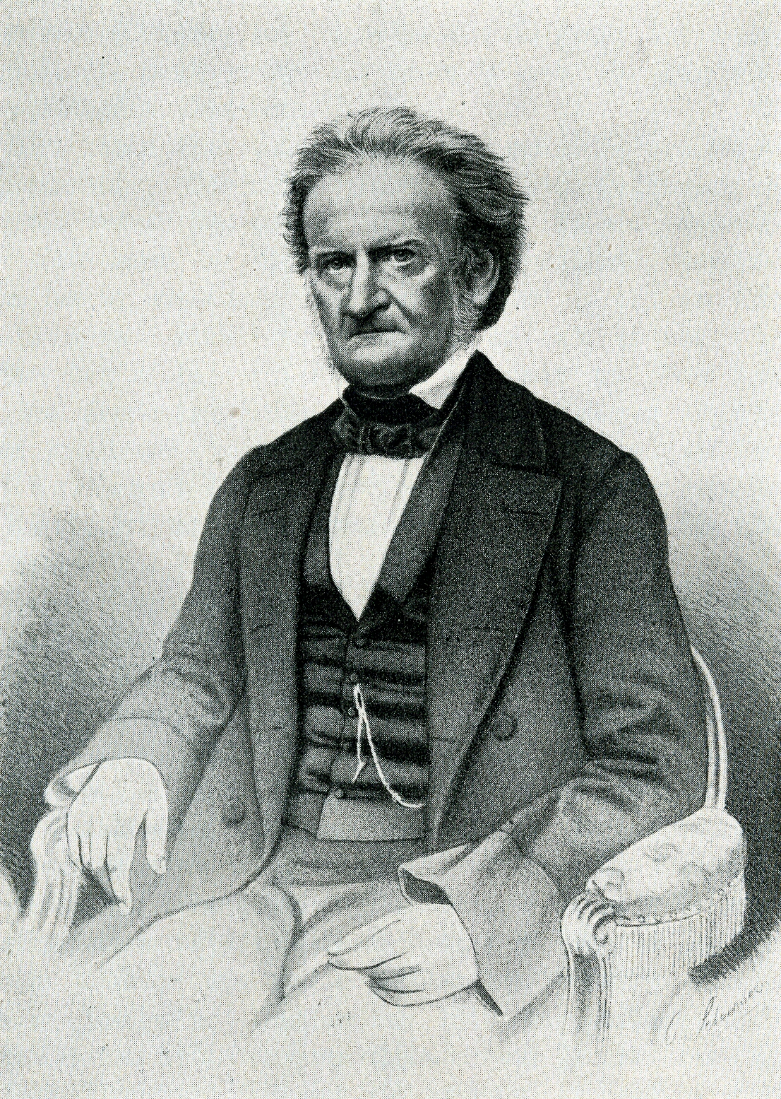 Johann Ludwig Christoph Wilhelm von Döderlein (1791-1863), Professor for Classical philology at the University of Erlangen-Nuremberg from 1826 until his death.